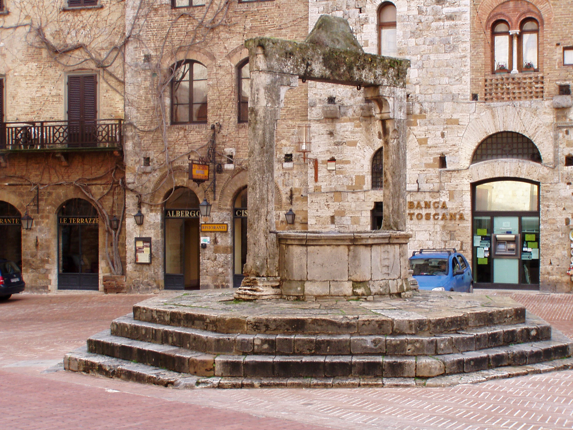 Well on Piazza della Cisterna in San Gimignano, Italy